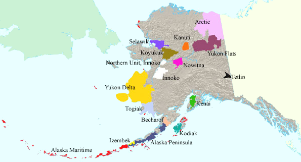 Map of National Wildlife Refuges of Alaska